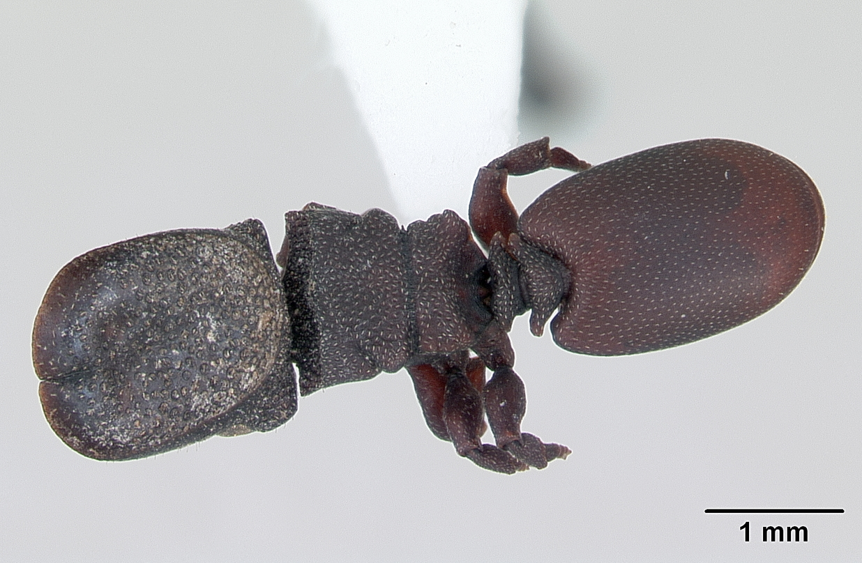 Dorsal view of ant Cephalotes pallidoides specimen casent0173694.